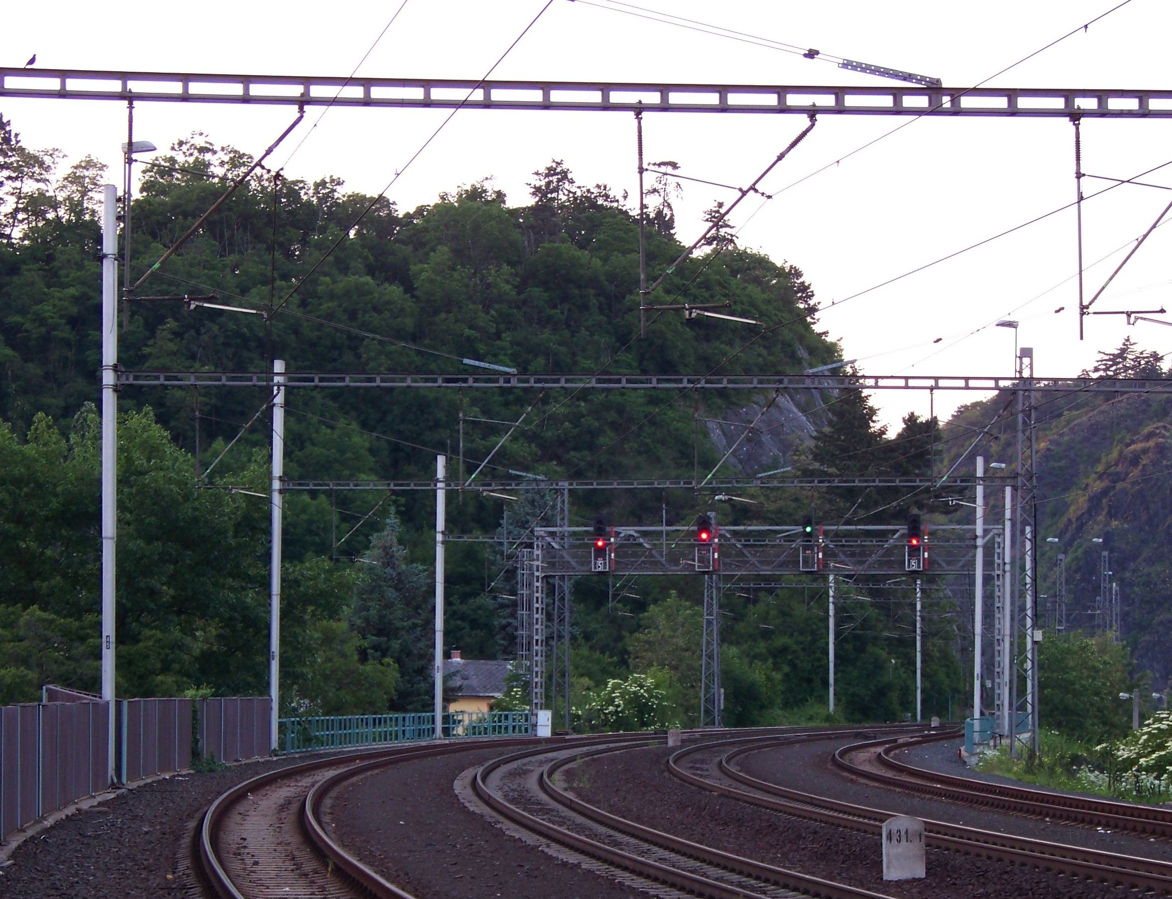 Libčice nad Vltavou, Prague-West District, Central Bohemian Region. Train station, a view of Liběhrad. - Google Maps - Google Earth